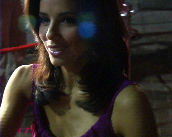 Eva Longoria at the premiere of Harsh Times, Toronto Film Festival 2005